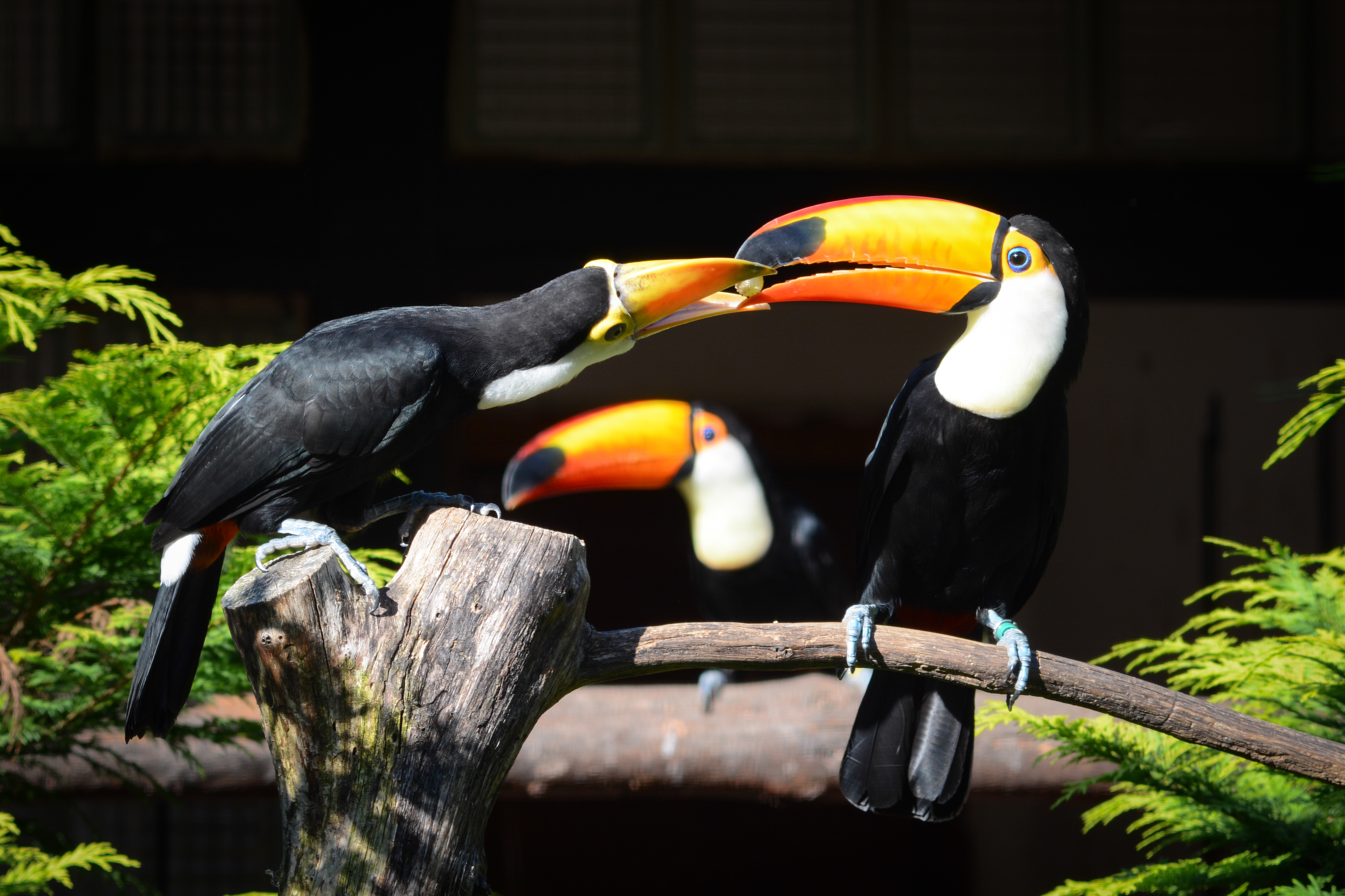 Feeding of a young Toco Toucan (Ramphastos toco) at Weltvogelpark Walsrode (Walsrode Bird Park, Germany)